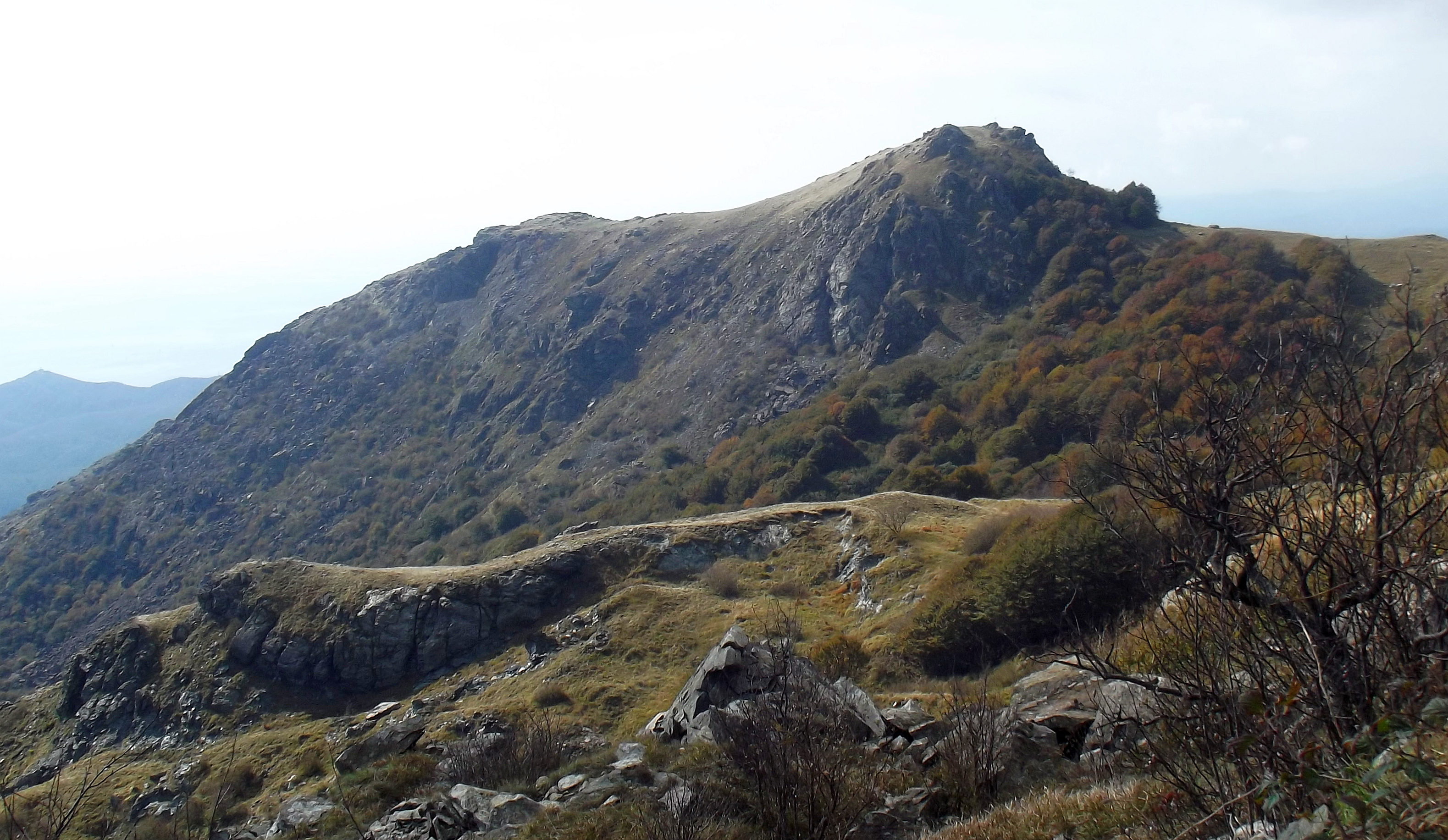 Monte Sciguello east slopes (GE, Italy)